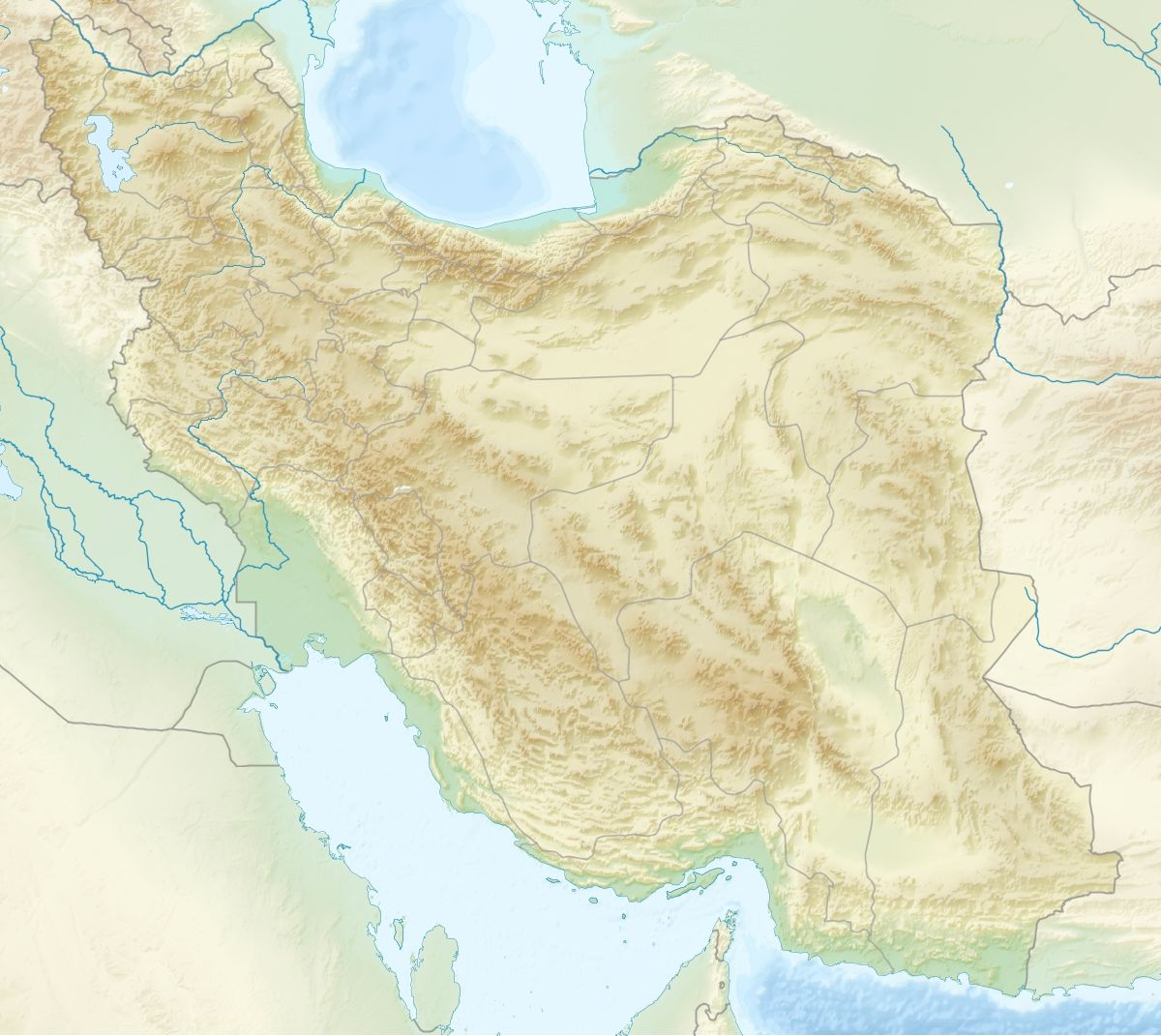 Location map of Iran. Equirectangular projection. Strechted by 118.0%. Geographic limits of the map: * N: 40.0° N * S: 24.5° N * W: 43.5° E * E: 64.0° E Made with Natural Earth. Free vector and raster map data @ .